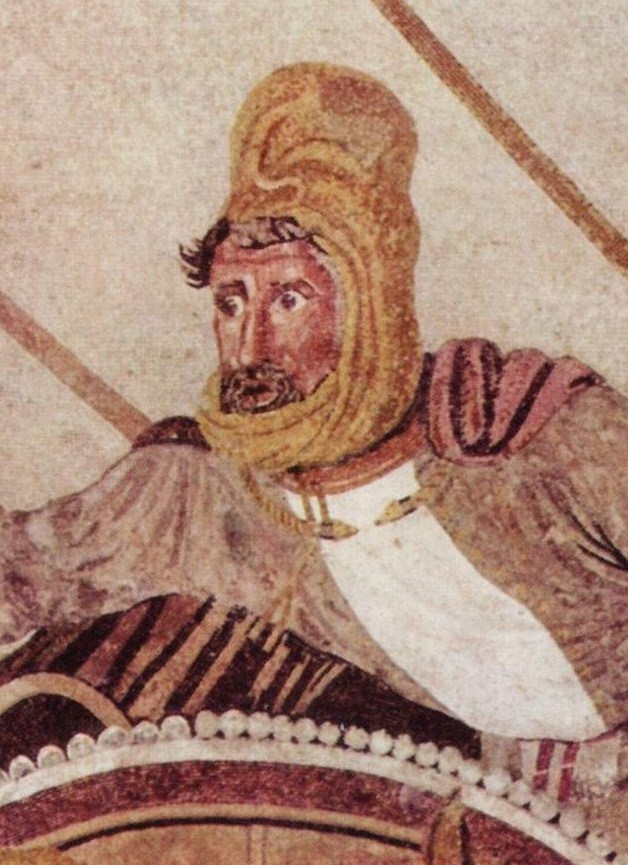 Darius III of Persia.